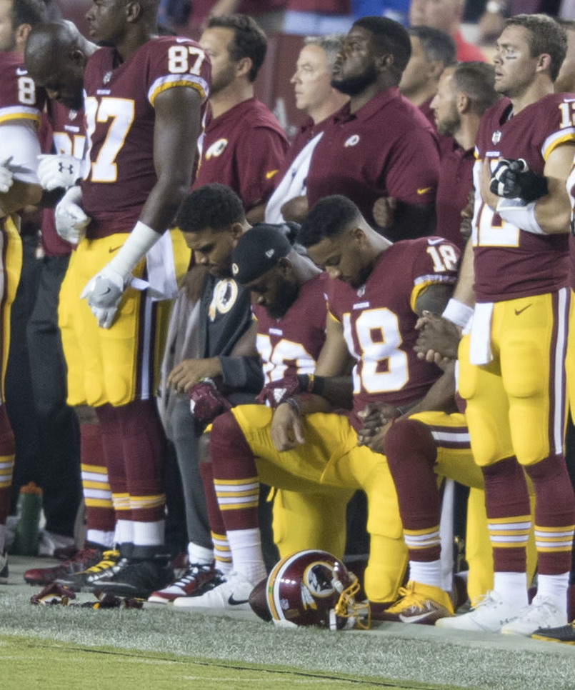 Washington Redskins teammates during the national anthem before a game against the Oakland Raiders at FedExField on September 24, 2017 in Landover, Maryland.